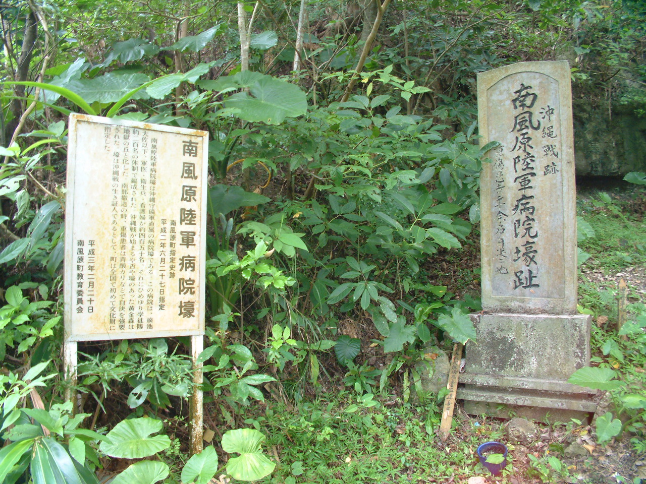 Memorial monument of Okinawa military hospital at Haebaru